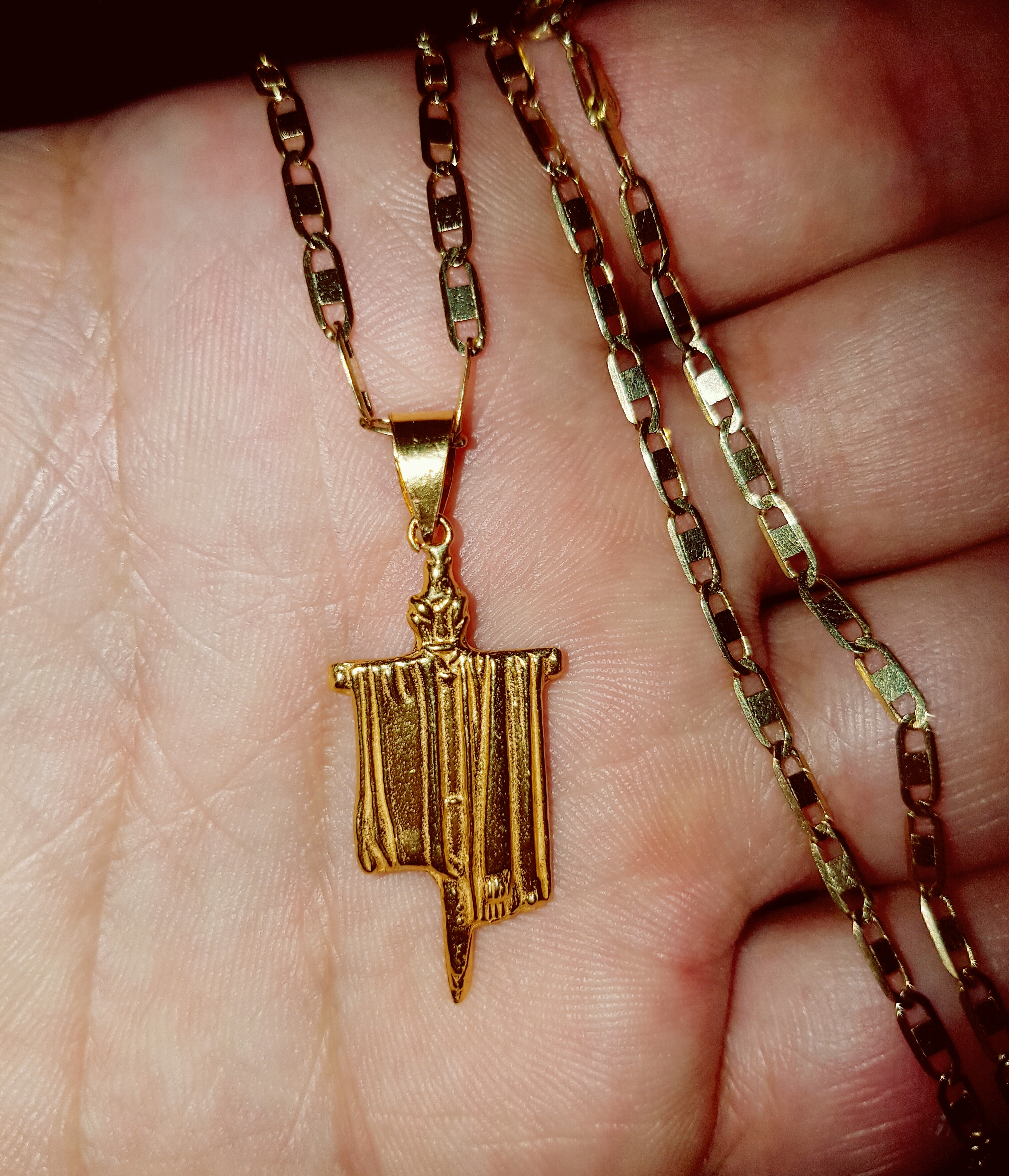 درفش مندائي darfash mandaean